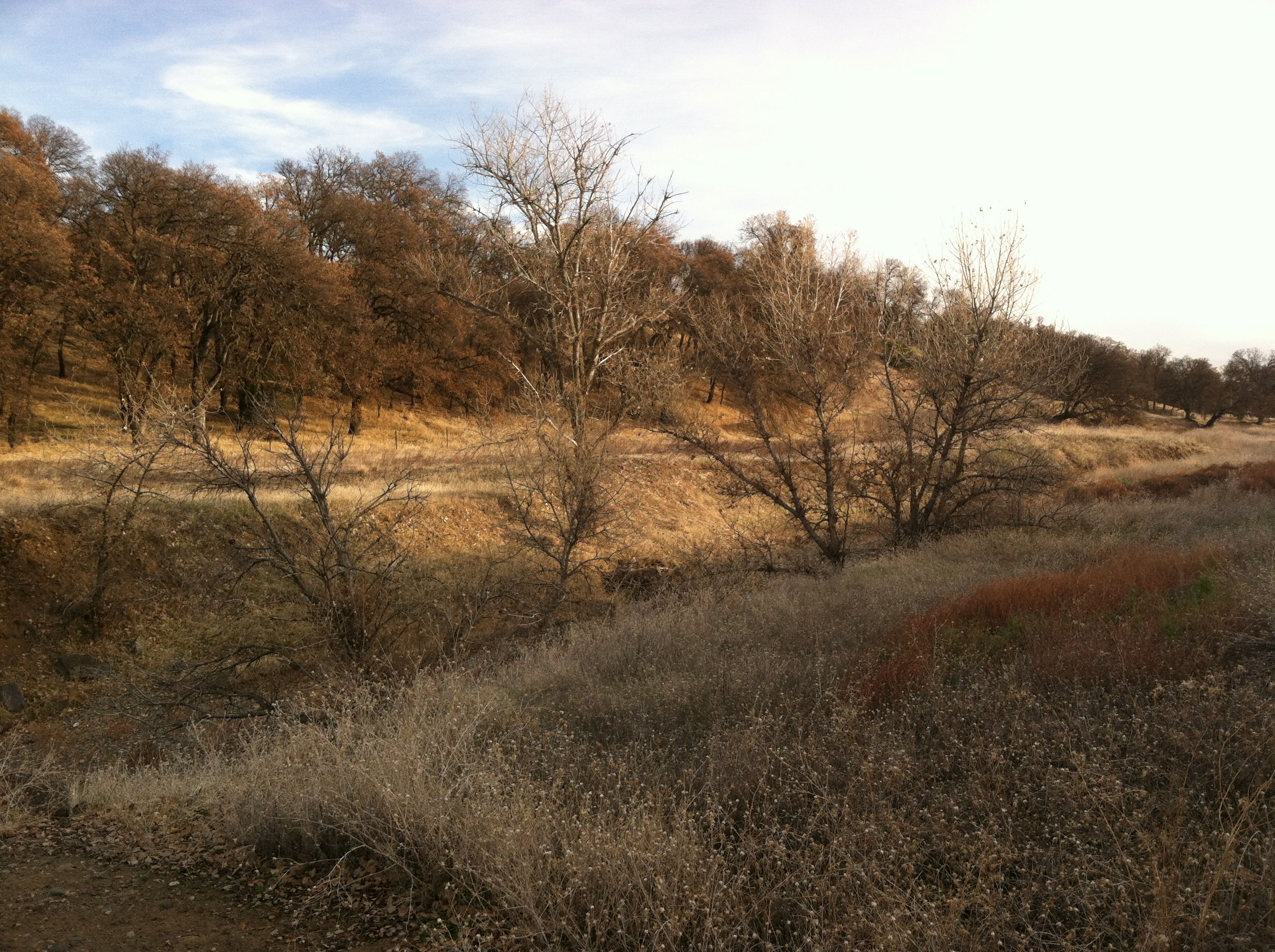 Brushes and dried creek within the Oroville Wildlife Area, Northern California.